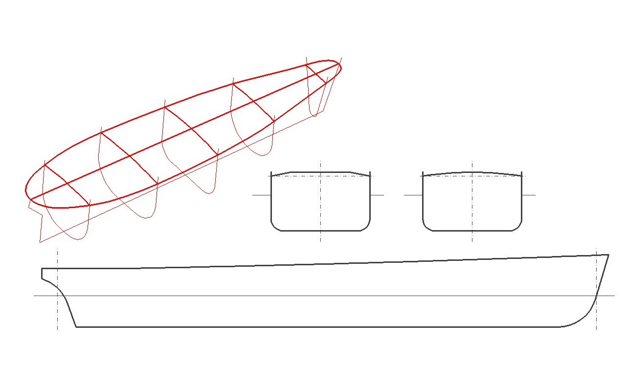 Camber and sheer chart